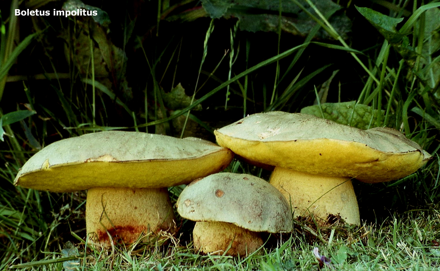 The source of this image is the photographer Frank Gardiner aka Zonda Grattus, who is the sole owner and copyright holder of this photograph and agrees to publish it under the Own Work, Creative Commons Attribution 3.0 License.